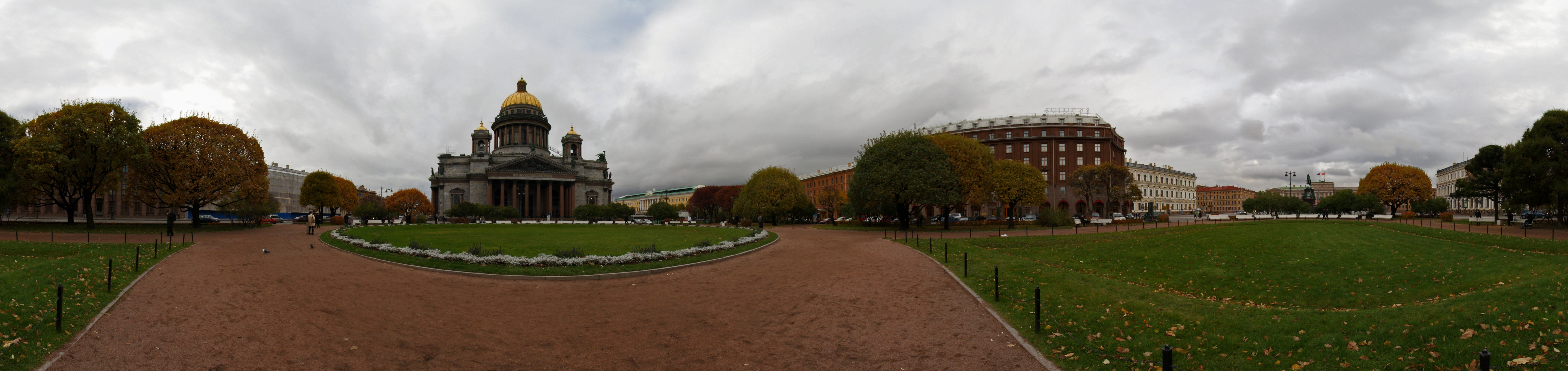 360° panoramic view of the Saint Isaac's Cathedral and the Saint Isaac's Square in Saint Petersburg, Russia